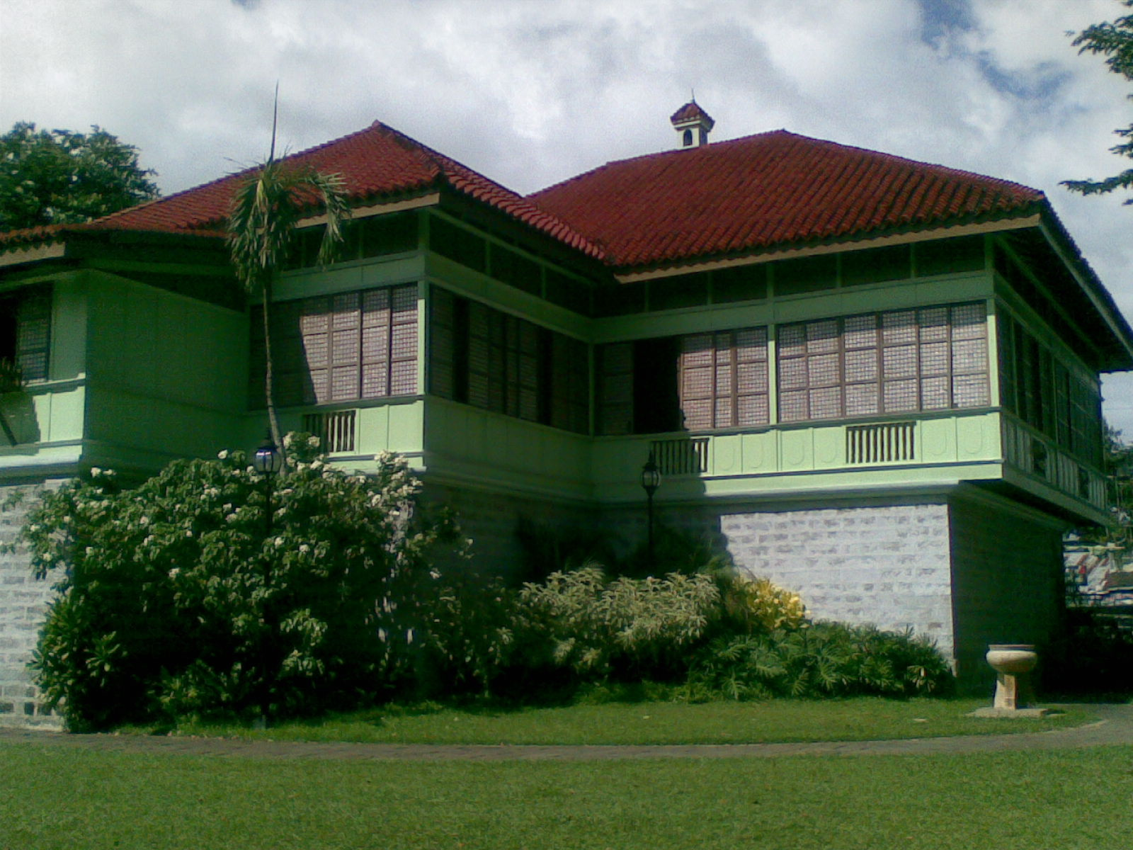 Rizal Shrine Calamba,Laguna